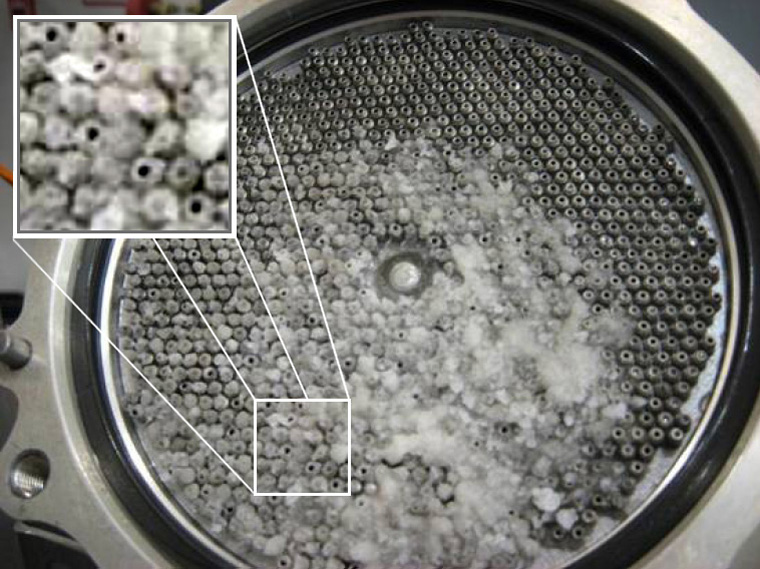 Ice on the inlet face of a Rolls-Royce RB211 Trent 800 series FOHE (Fuel-Oil Heat Exchanger). Inset image showing larger view of ice crystals.